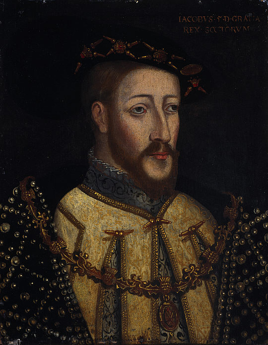 Portrait of James V of Scotland (1512-1542). Father of Mary, Queen of Scots.